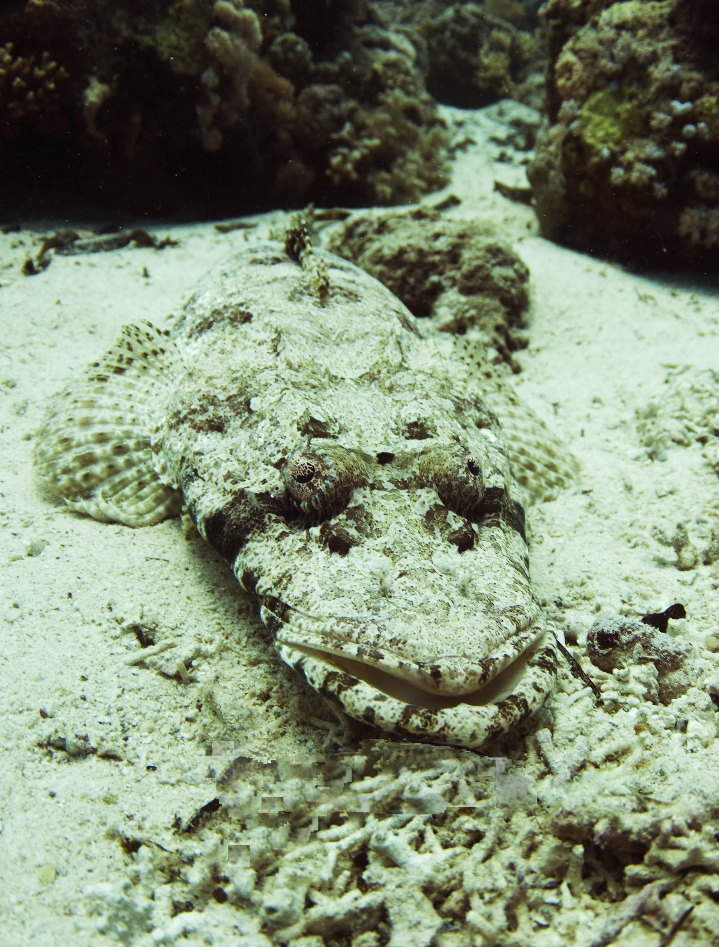 Crocodilefish (Cymbacephalus beauforti)